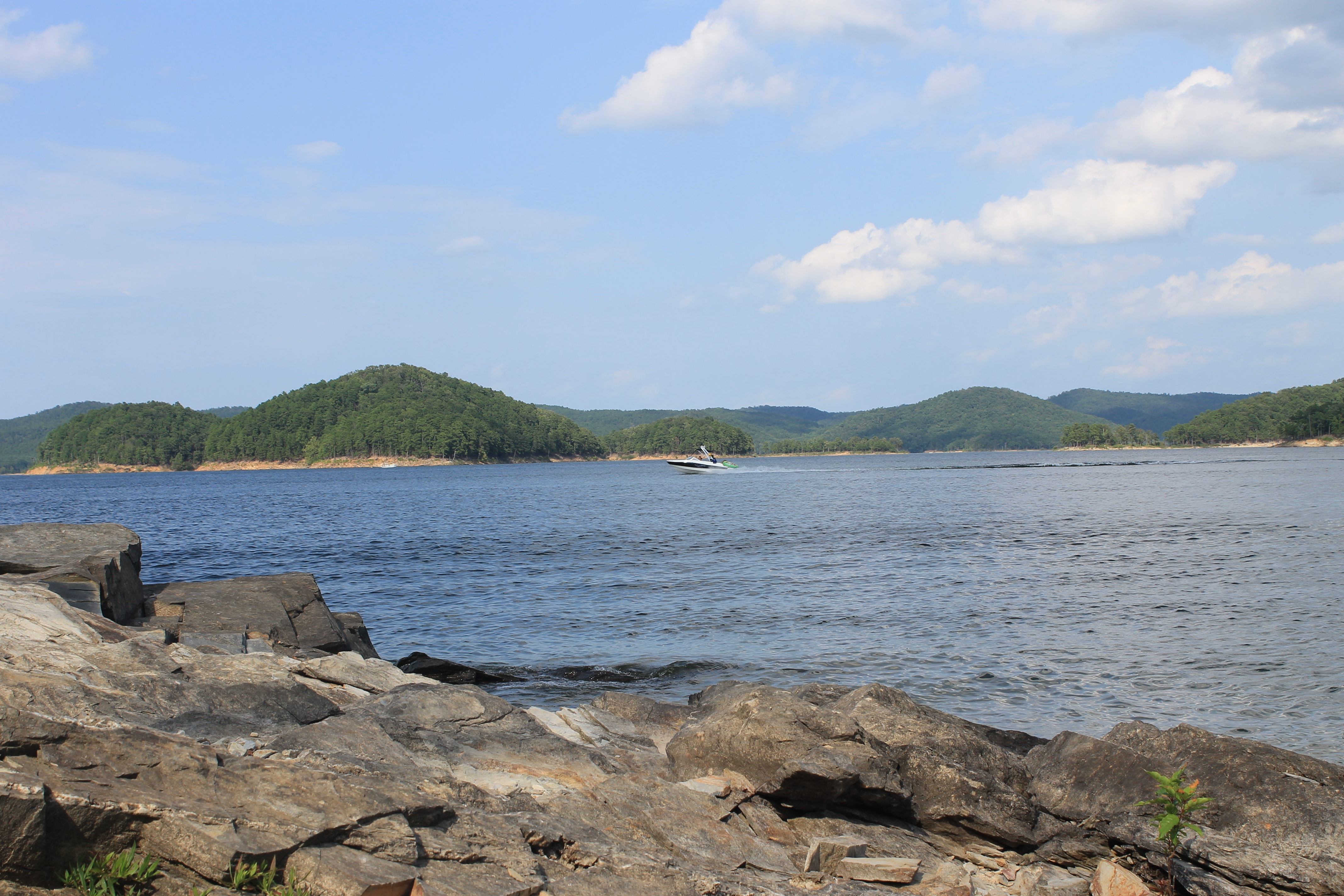 One of the many coves throughout Broken Bow.